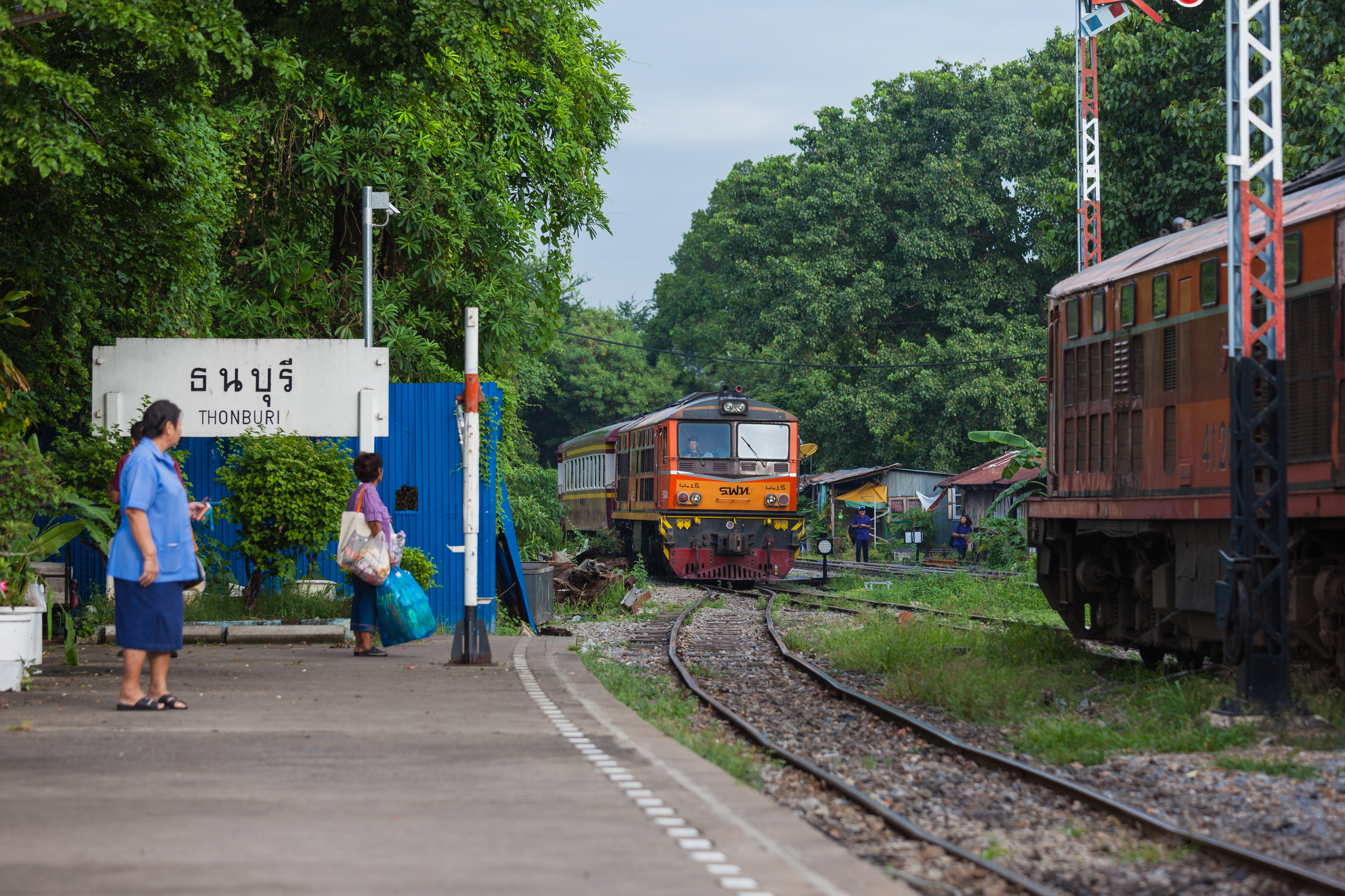 Thonburi Railway station, BKK.